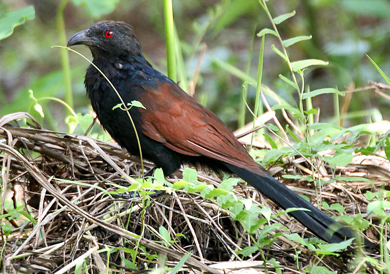 Greater Coucal Centropus sinensis in Kolkata, West Bengal, India.